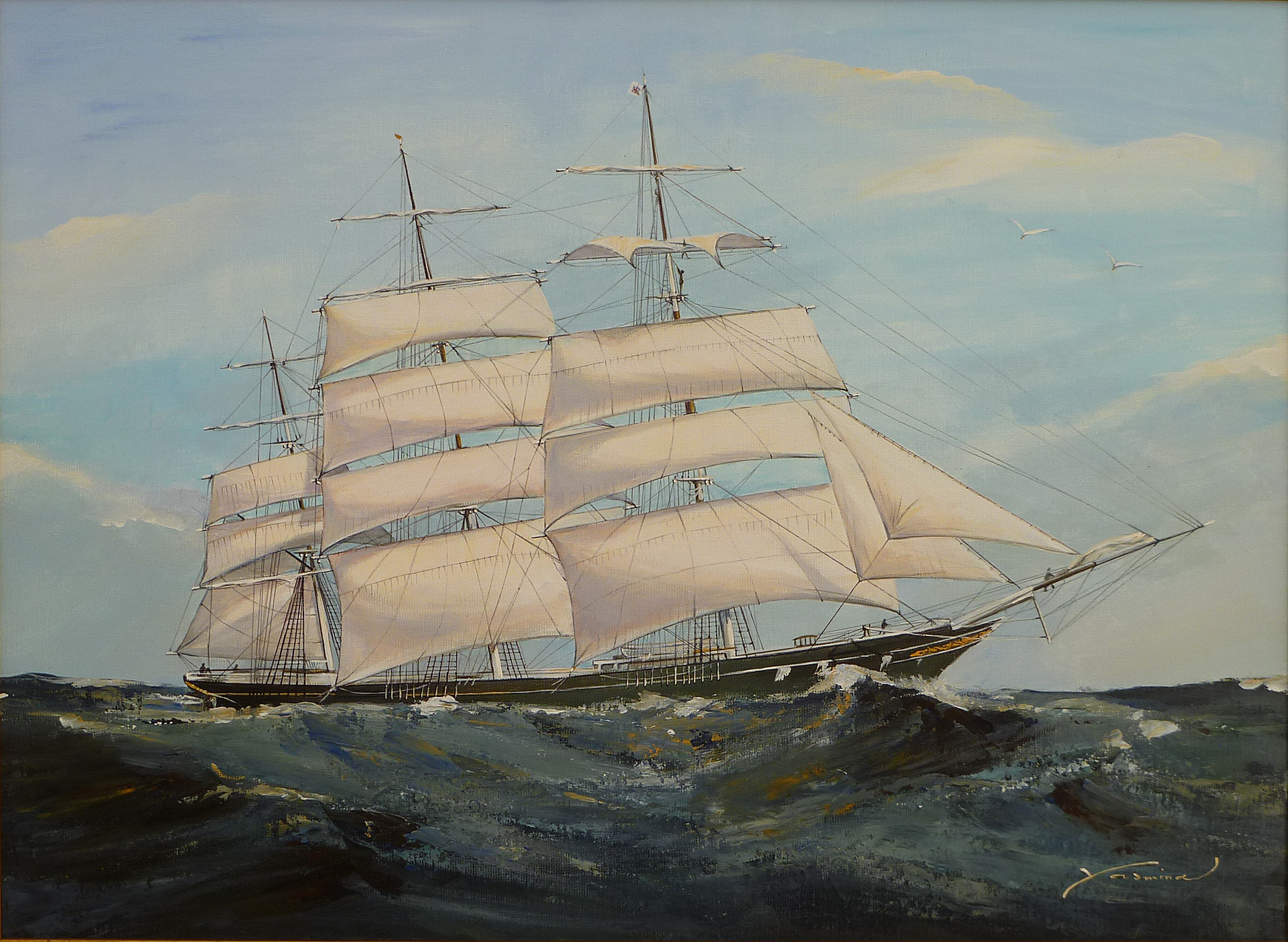 Thermopylae (ship, 1868)